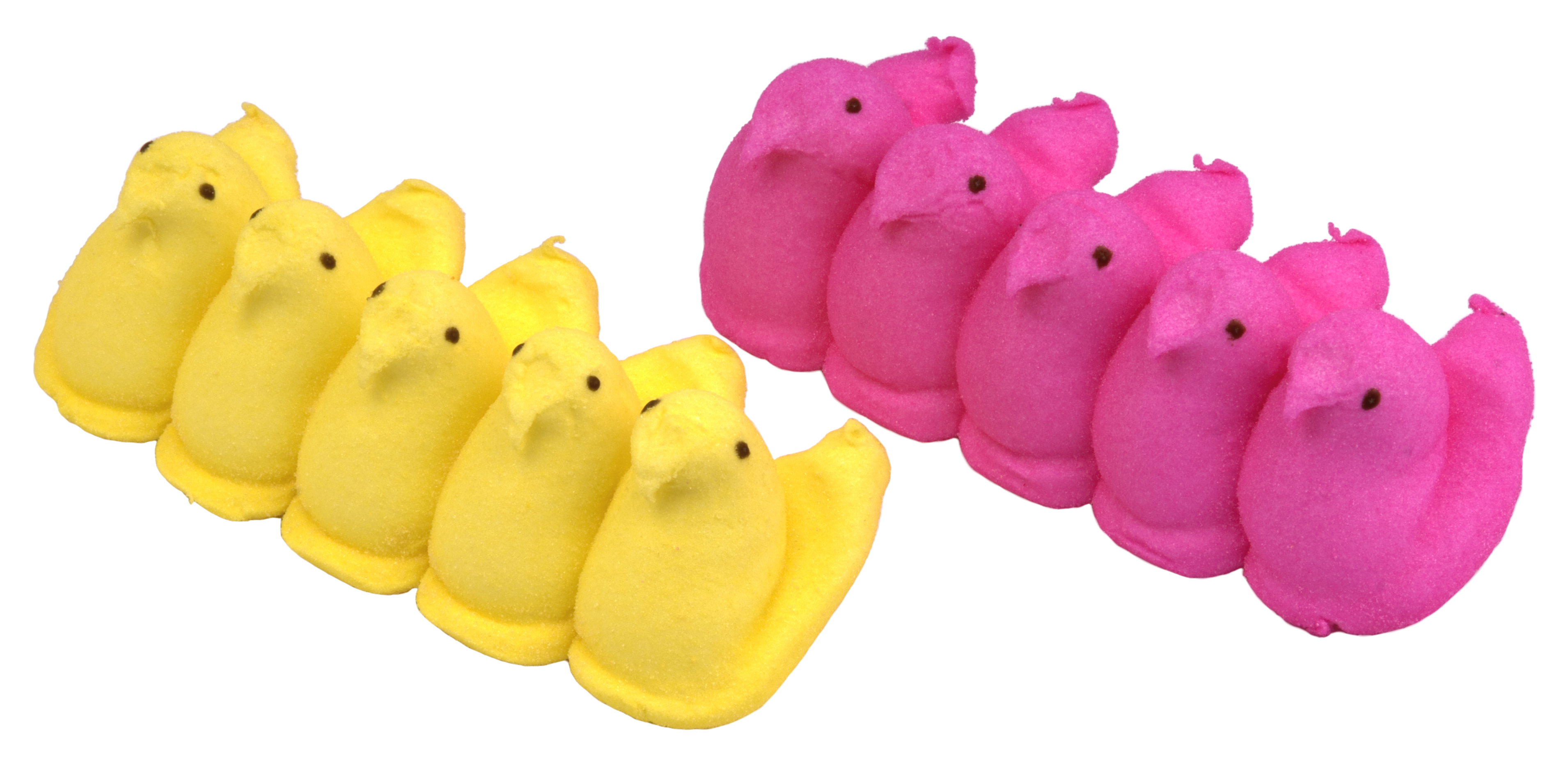 Two rows of yellow and pink Easter Peeps, made by Just Born.